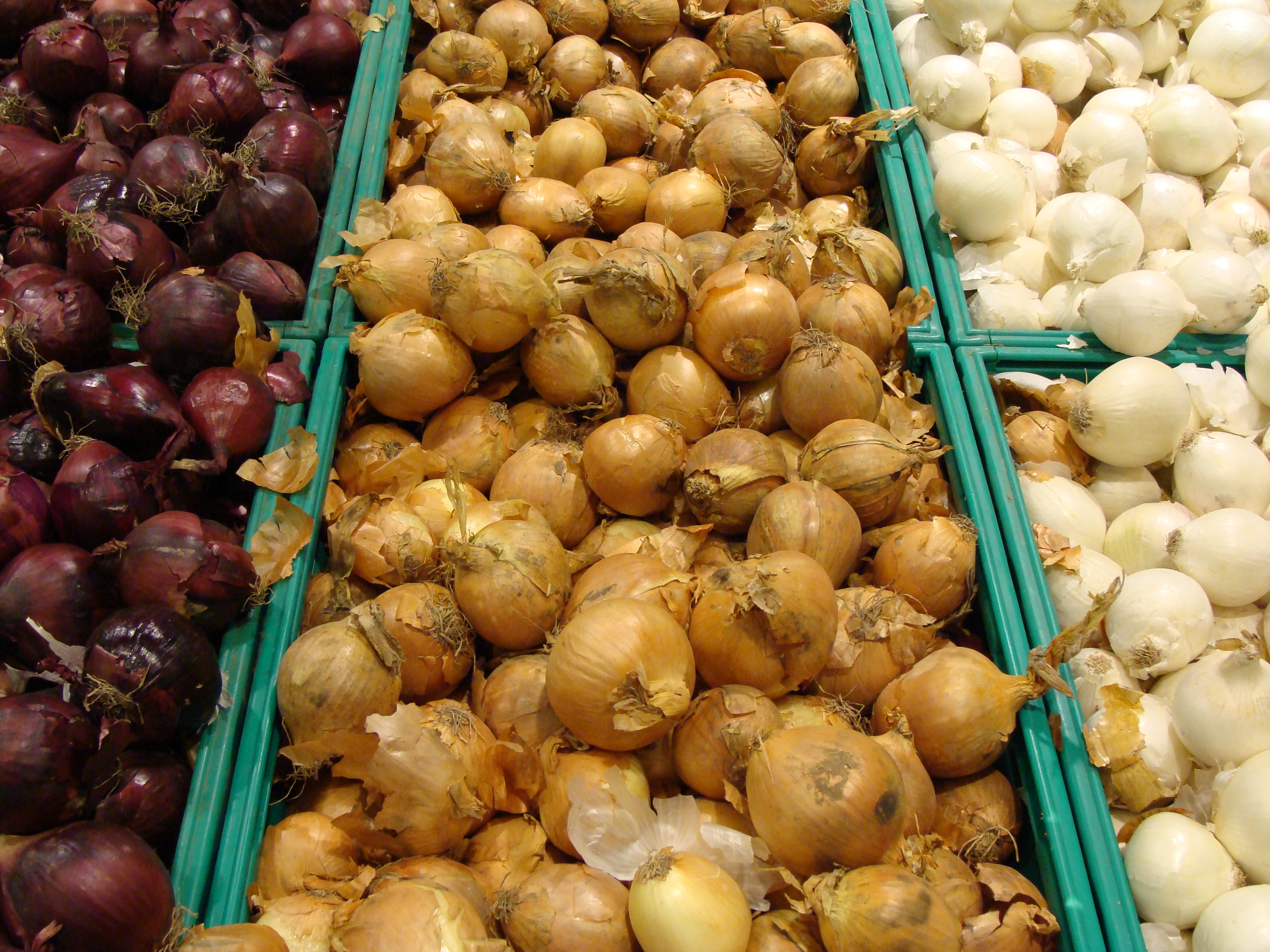 red, yellow and white onions in a supermarket